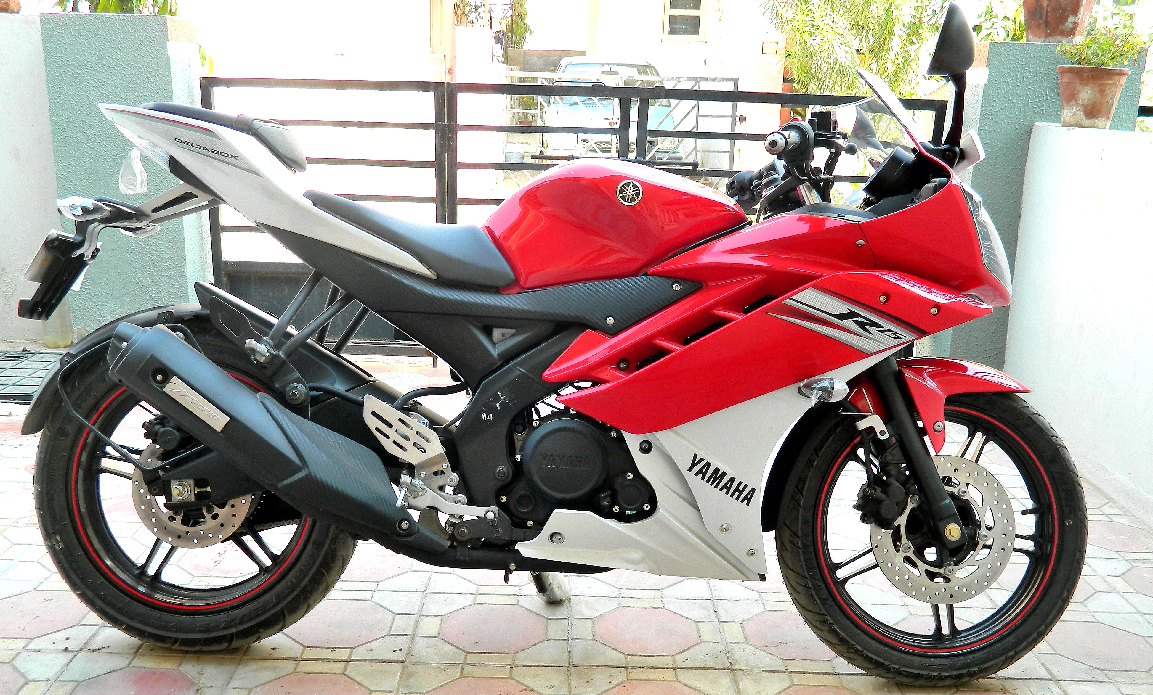 2012 R15 v2 Sunset red model.